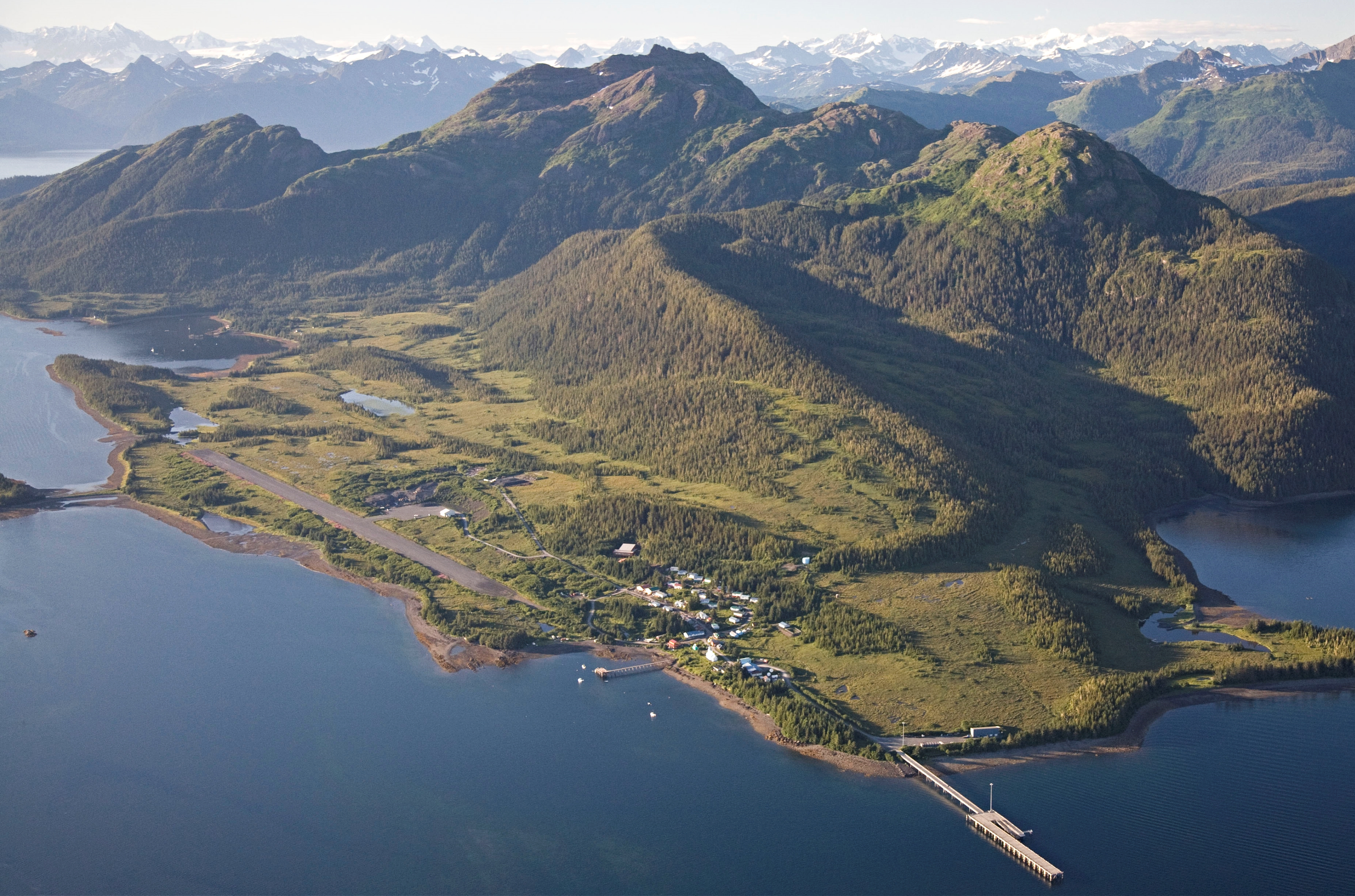 Aerial view of Tatitlek and Ellamar Mountain, Prince William Sound, Chugach National Forest, Alaska.